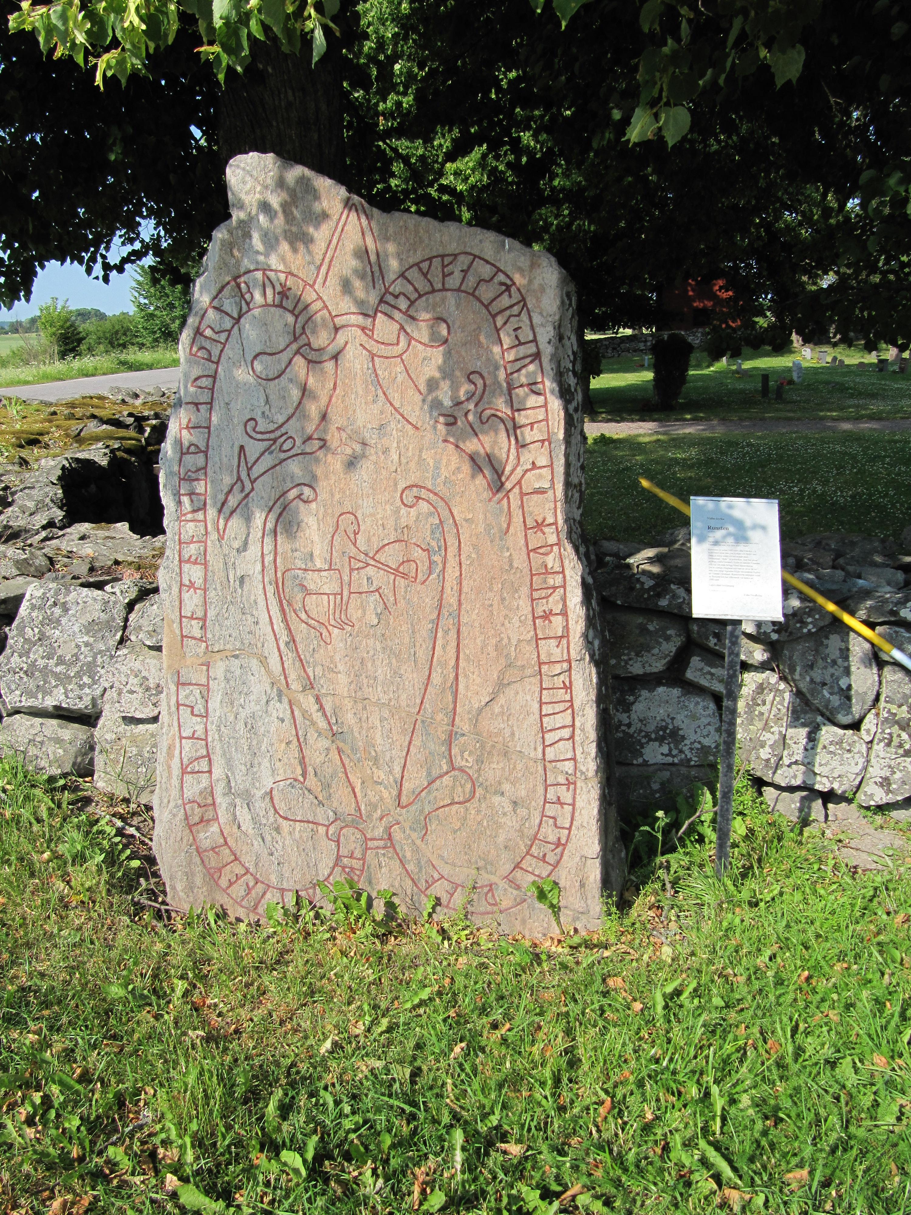 Runestone U 375 from Vidbo church. The text translates as "Sigfastr and Ginnlaug, they had this stone erected in memory of Vinaman, their son. And he died in Bógi(?)."